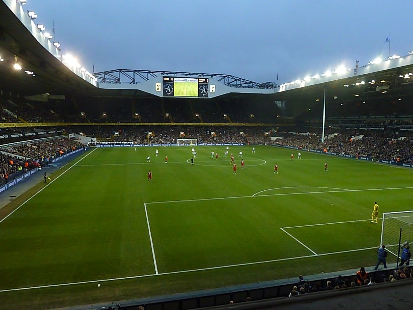 White Hart Lane